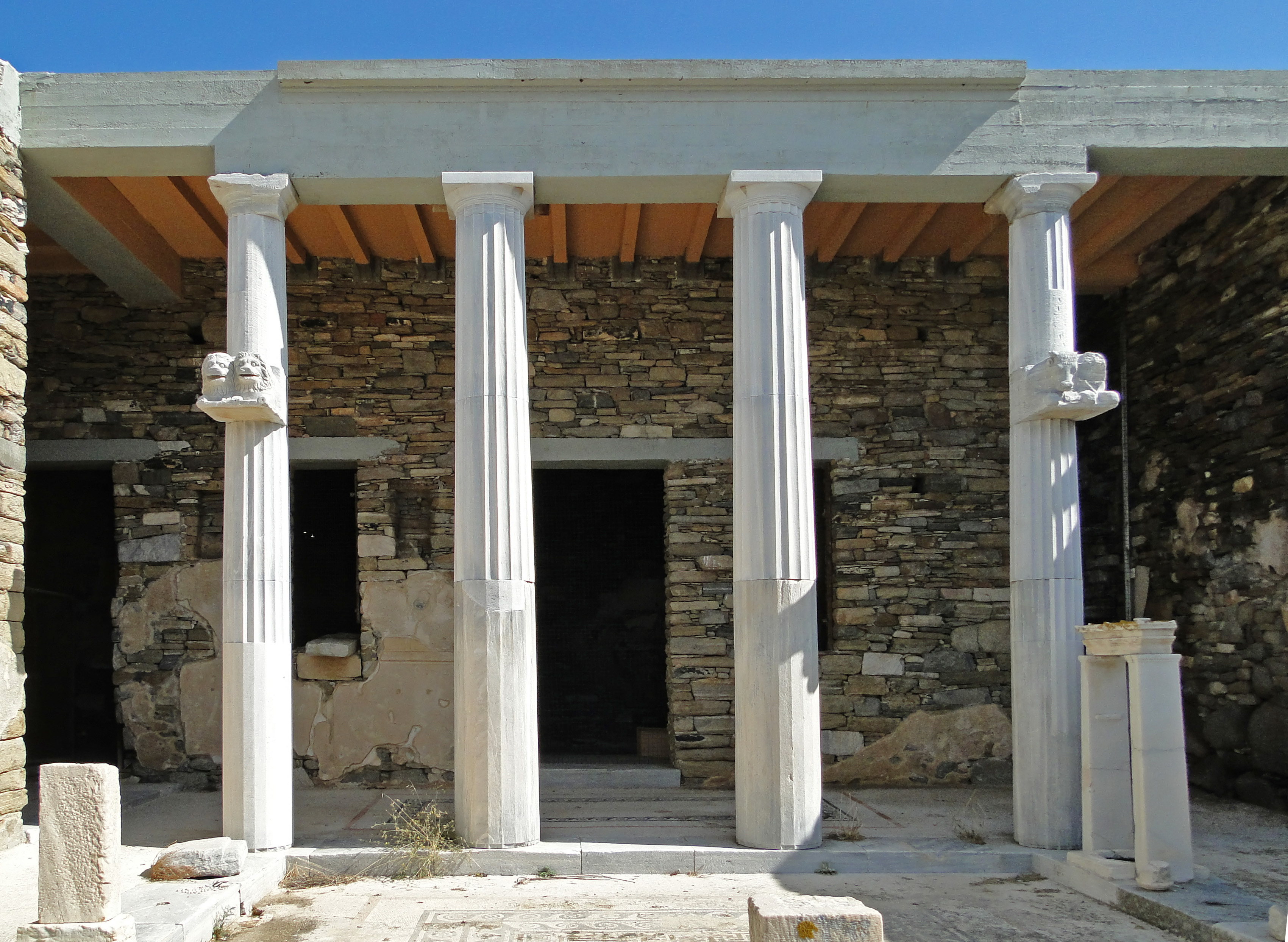 House of the Trident in Delos, Greece